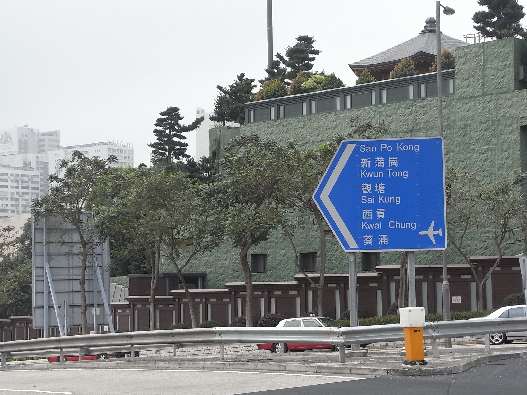 zh:2010年 斧山道 背景是南蓮園池建築物